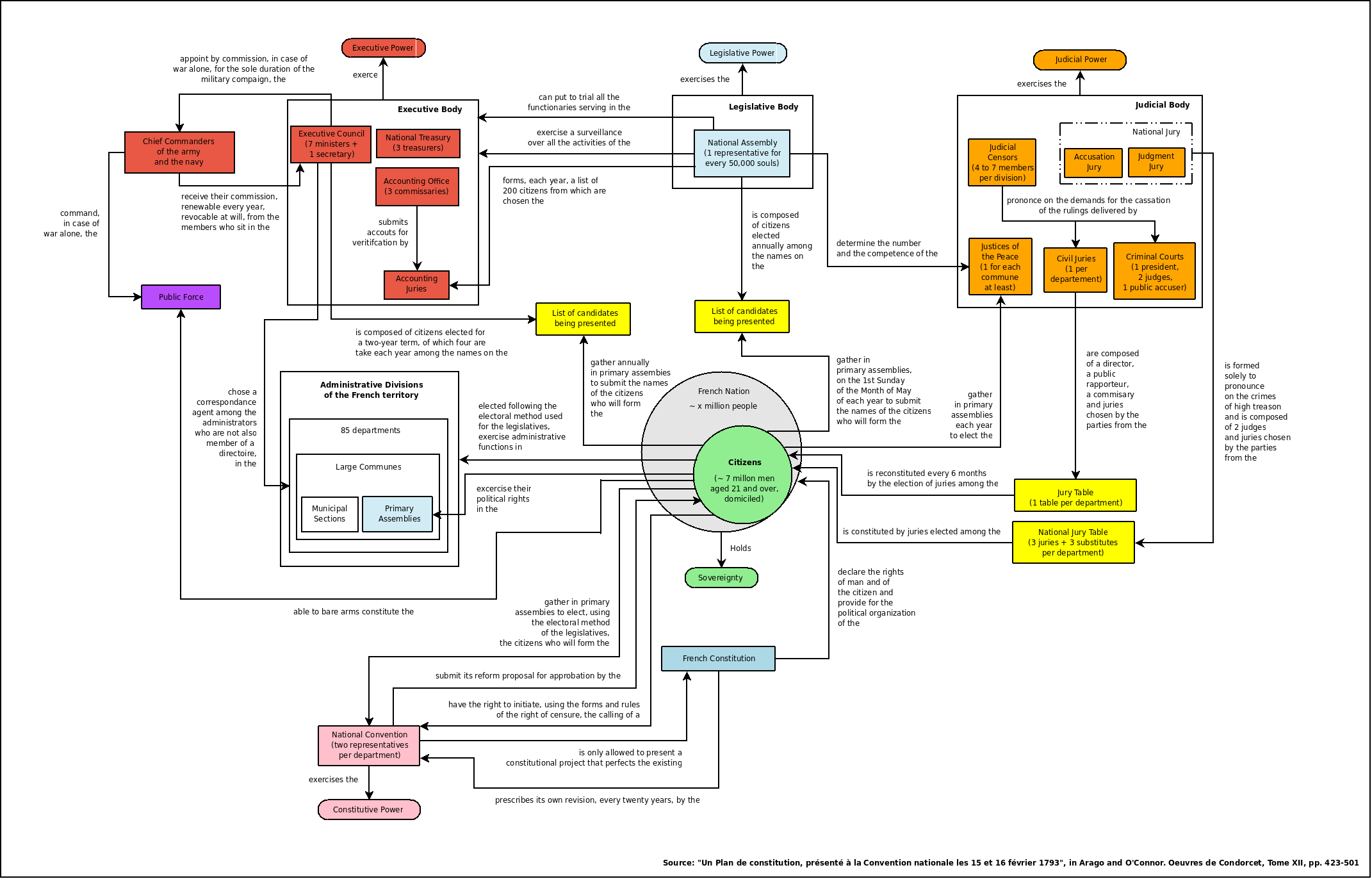 Diagram of the draft constitution submitted to the French National Convention on February 15, 1793. Draft signed by the eight members of the Constitution Committee. The work is attributed to the Marquis de Condorcet.